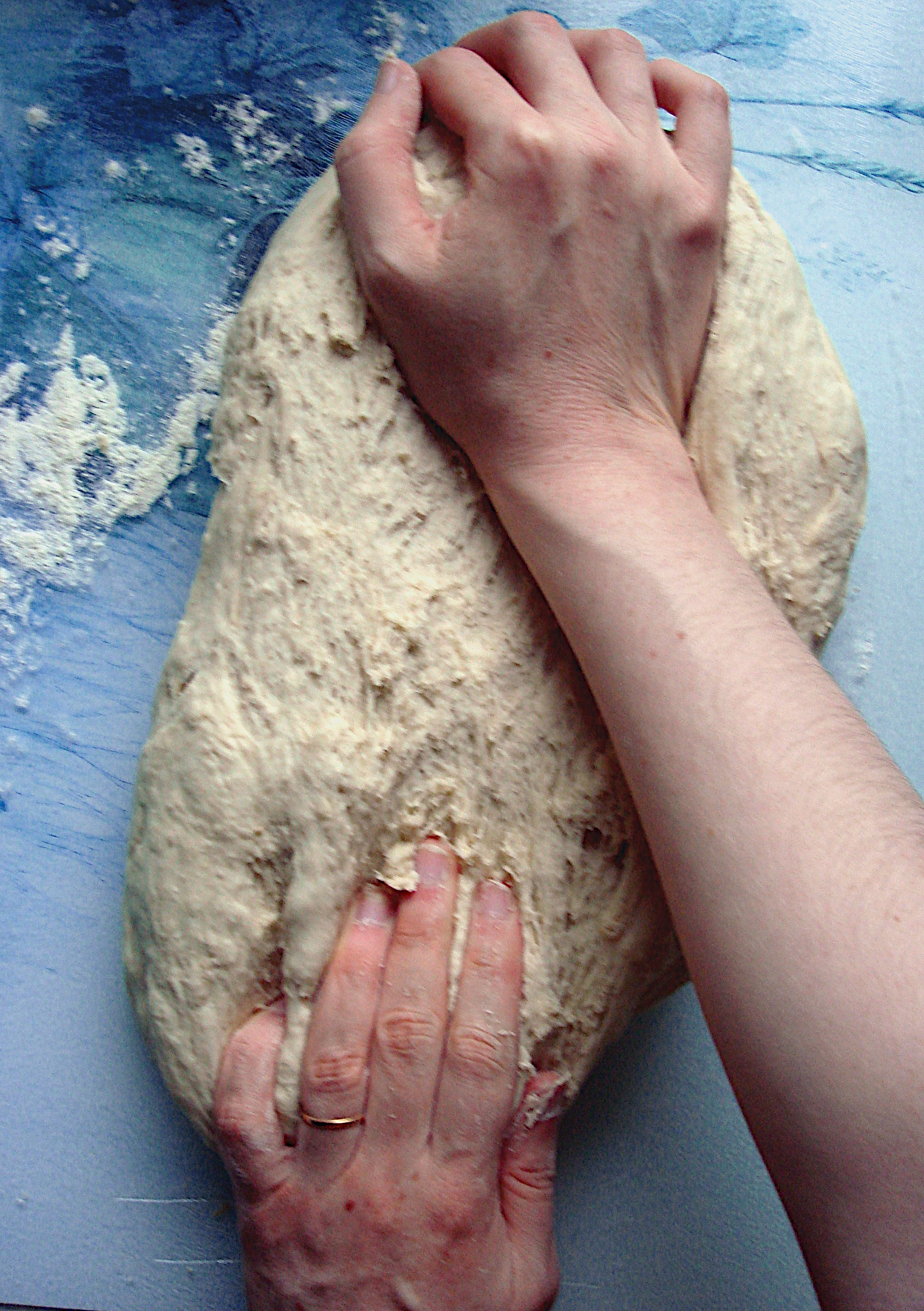 ElinorD kneading bread dough